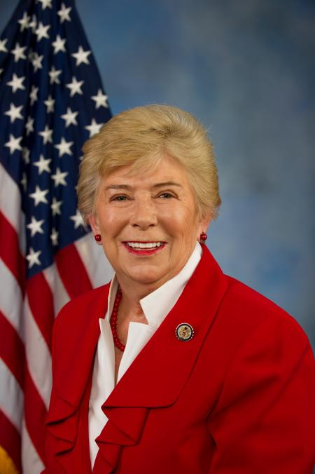 United States Congresswoman Carolyn McCarthy.